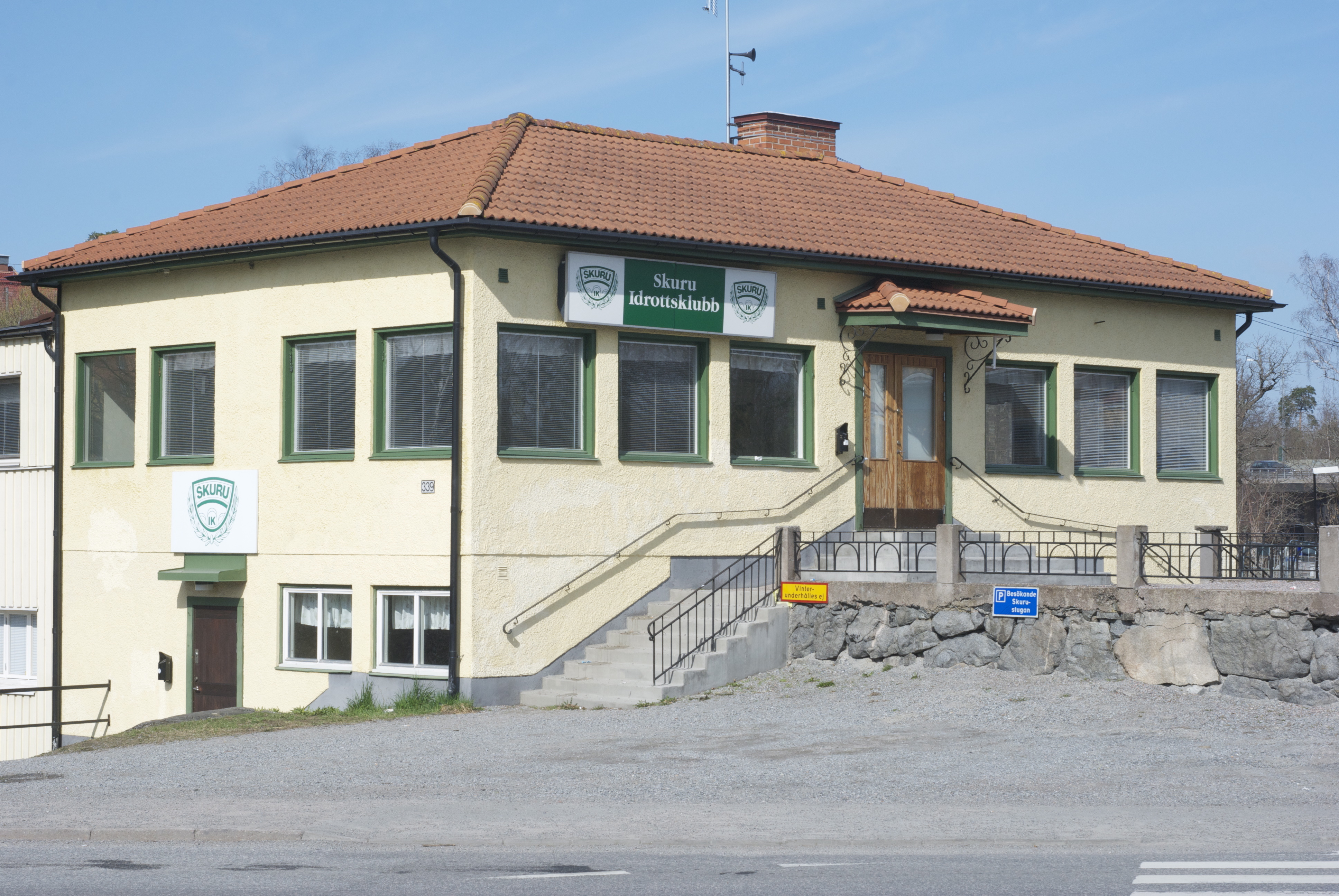 Skuru IK:s club house